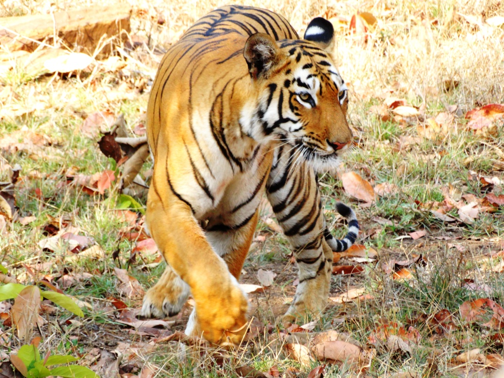 Panthera tigris tigris (Linnaeus, 1758). Bengal tiger. Indian subcontinent.